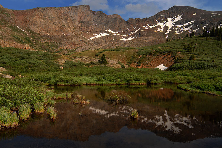 Mt Bierstadt